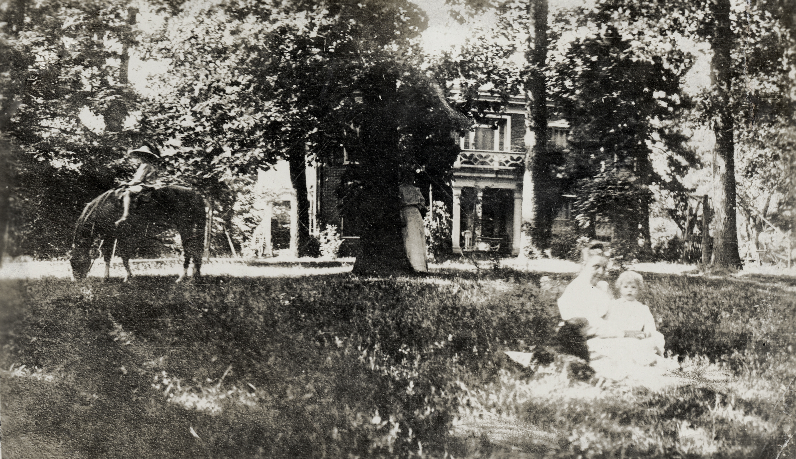 Forest Hill, home of Robert Hugh Miller, founder and publisher of the Liberty Tribune, Liberty, Missouri. Mrs Robert Hugh Miller (Louise Wilson) in foreground with granddaughter Catherine Day. Grandson Roger Owen Day on horse. Daughter Mary or Bess by tree. c. 1906